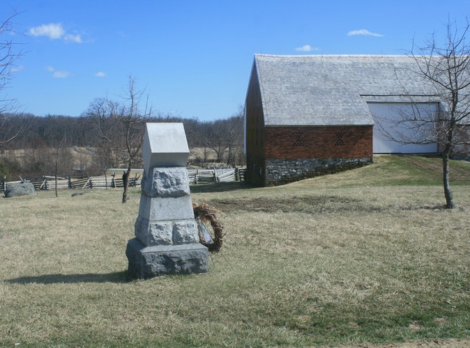 The barn of Trostle farm, and a place, whete gen. Sickles lost his leg.